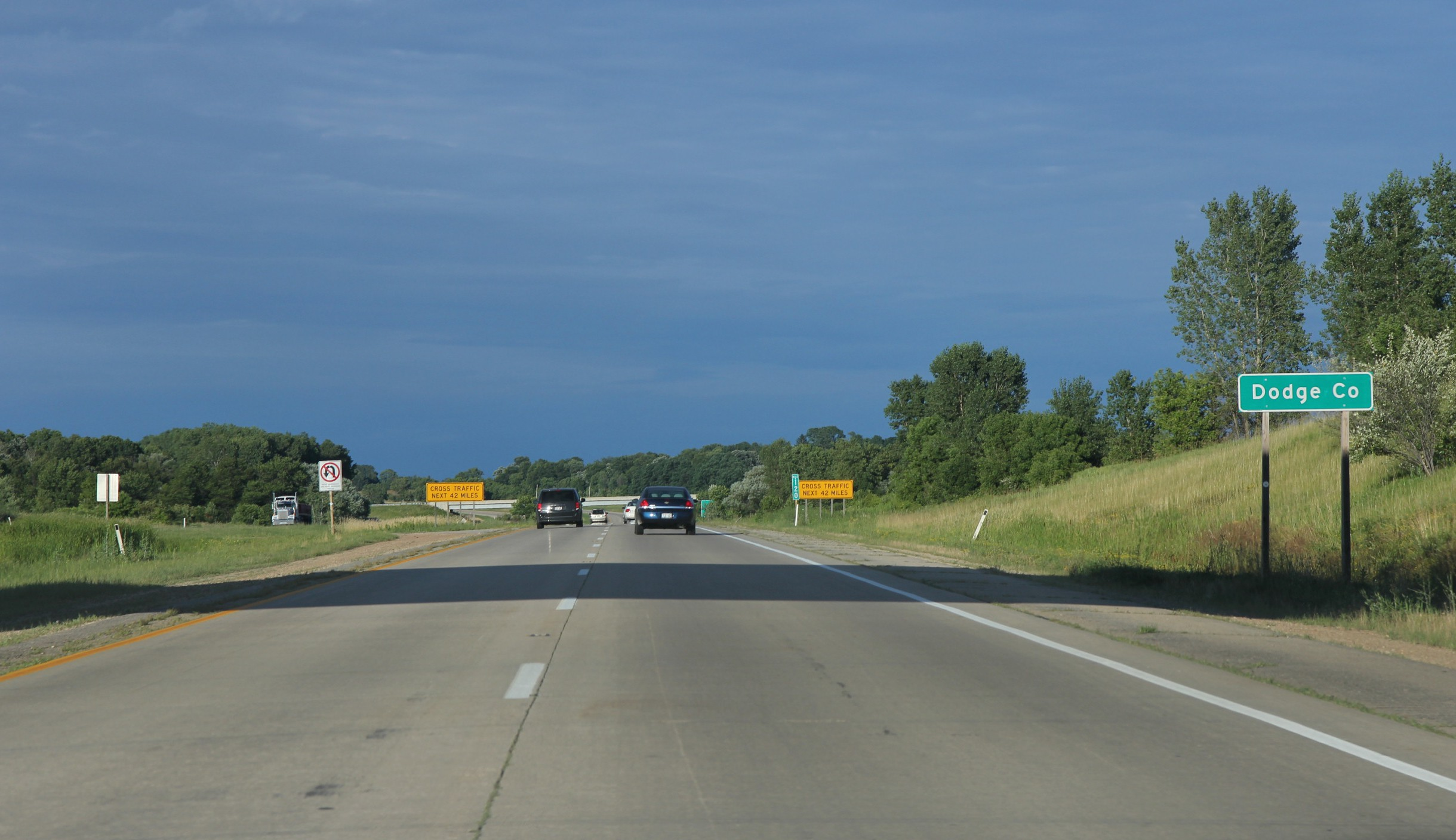 Looking north at the county sign for Dodge County, Wisconsin on U.S Route 151.